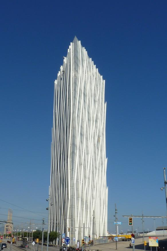 Skyscraper Torre Diagonal ZeroZero in Barcelona (Diagonal Mar), headquarter of Telefónica in Catalonia, designed by Enric Massip-Bosch.